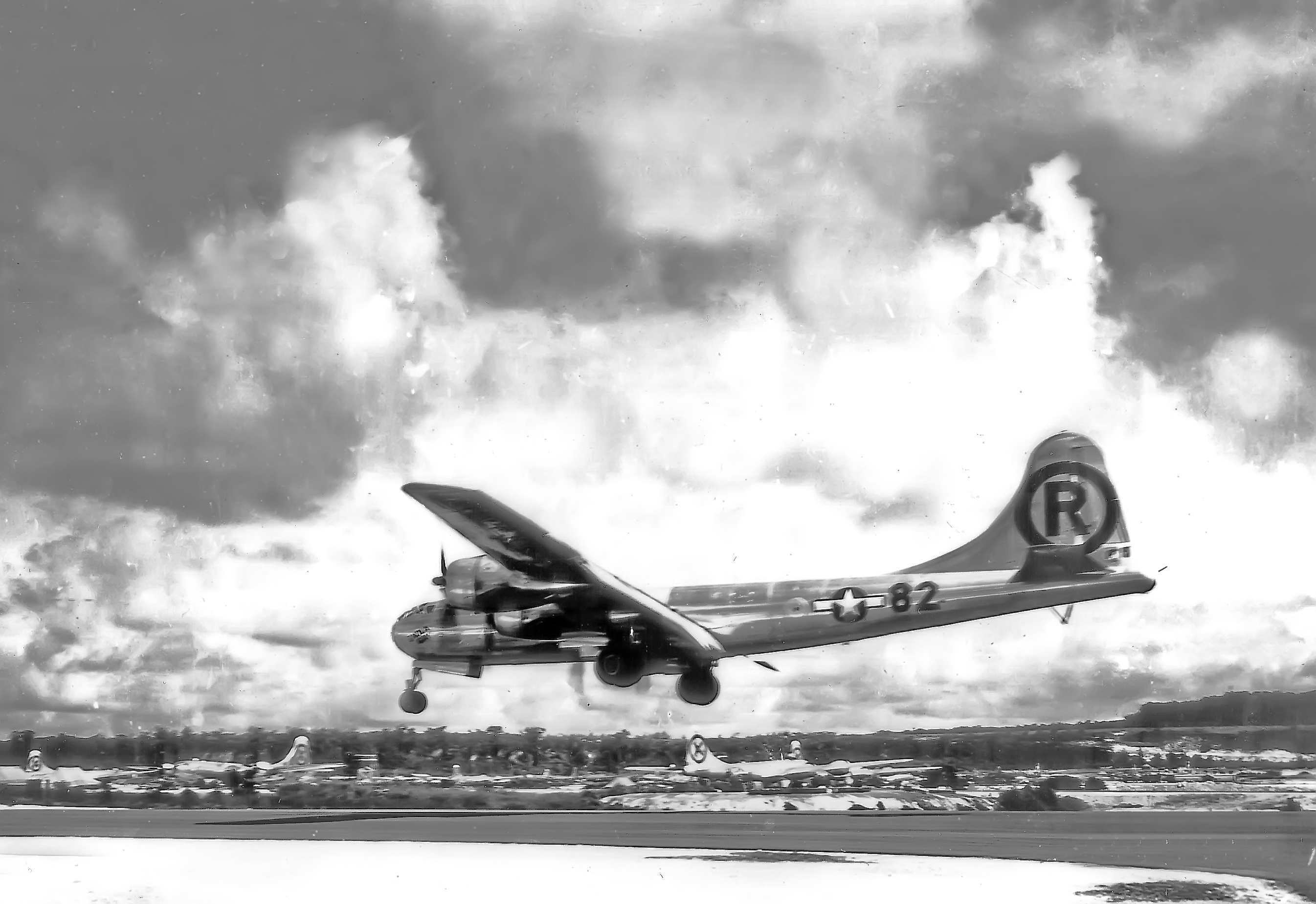 MARIANAS ISLAND -- Boeing B-29 Superfortress "Enola Gay" landing after the atomic bombing mission on Hiroshima, Japan - This is a filtered version.